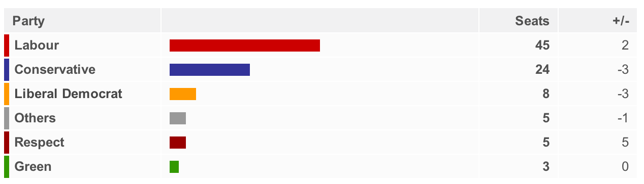 local election